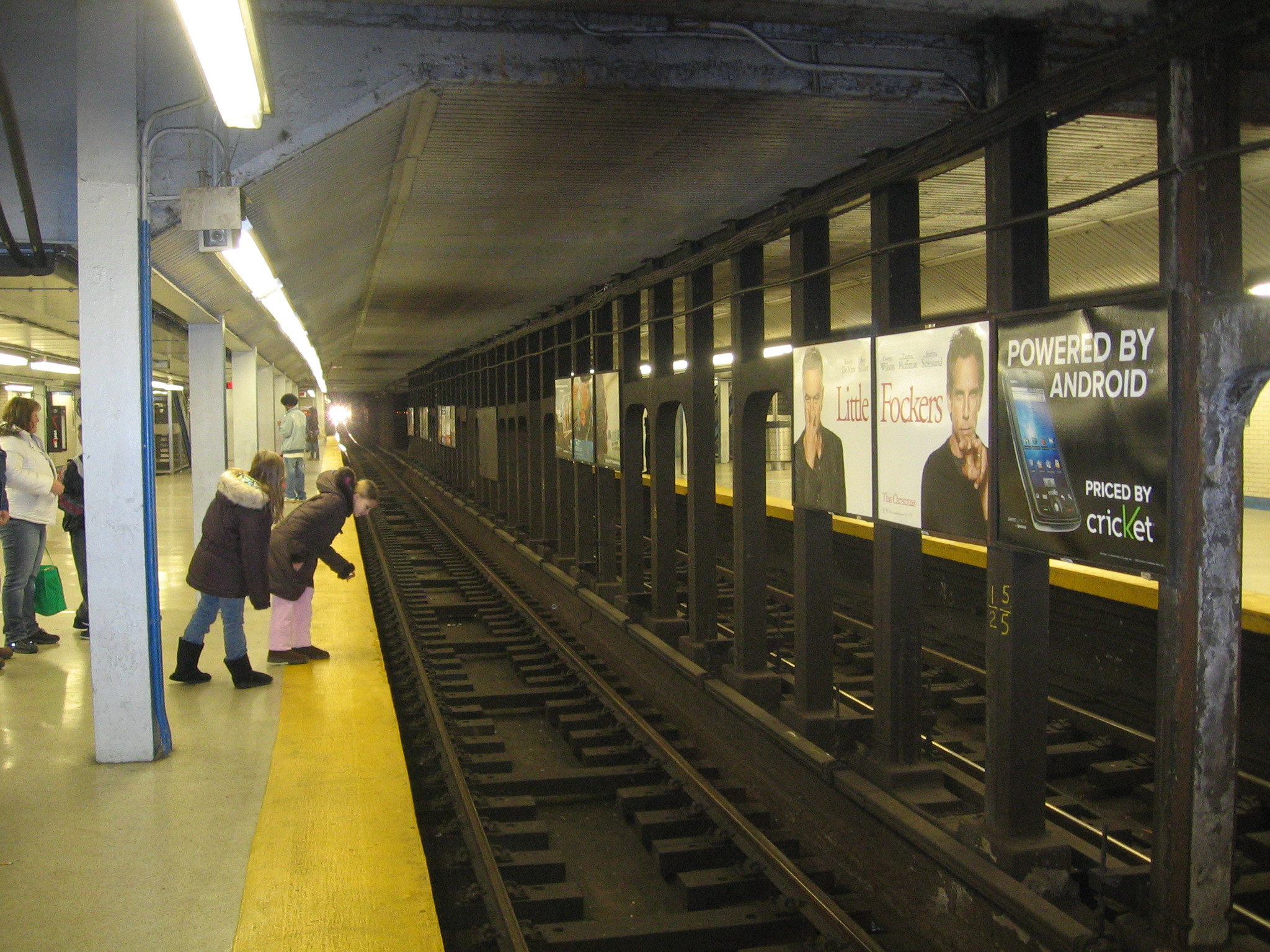 Eastbound train arriving at 15th Street on the Market-Frankford Line.